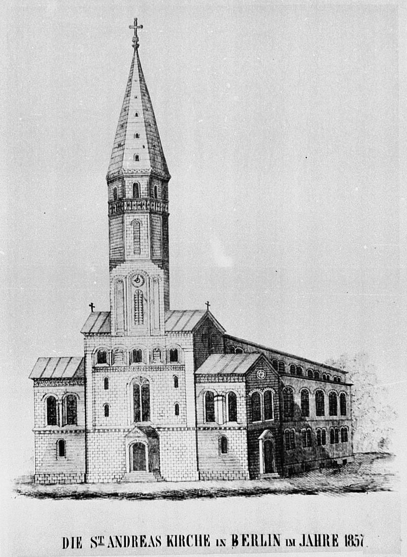 Andreaskirche, 1857